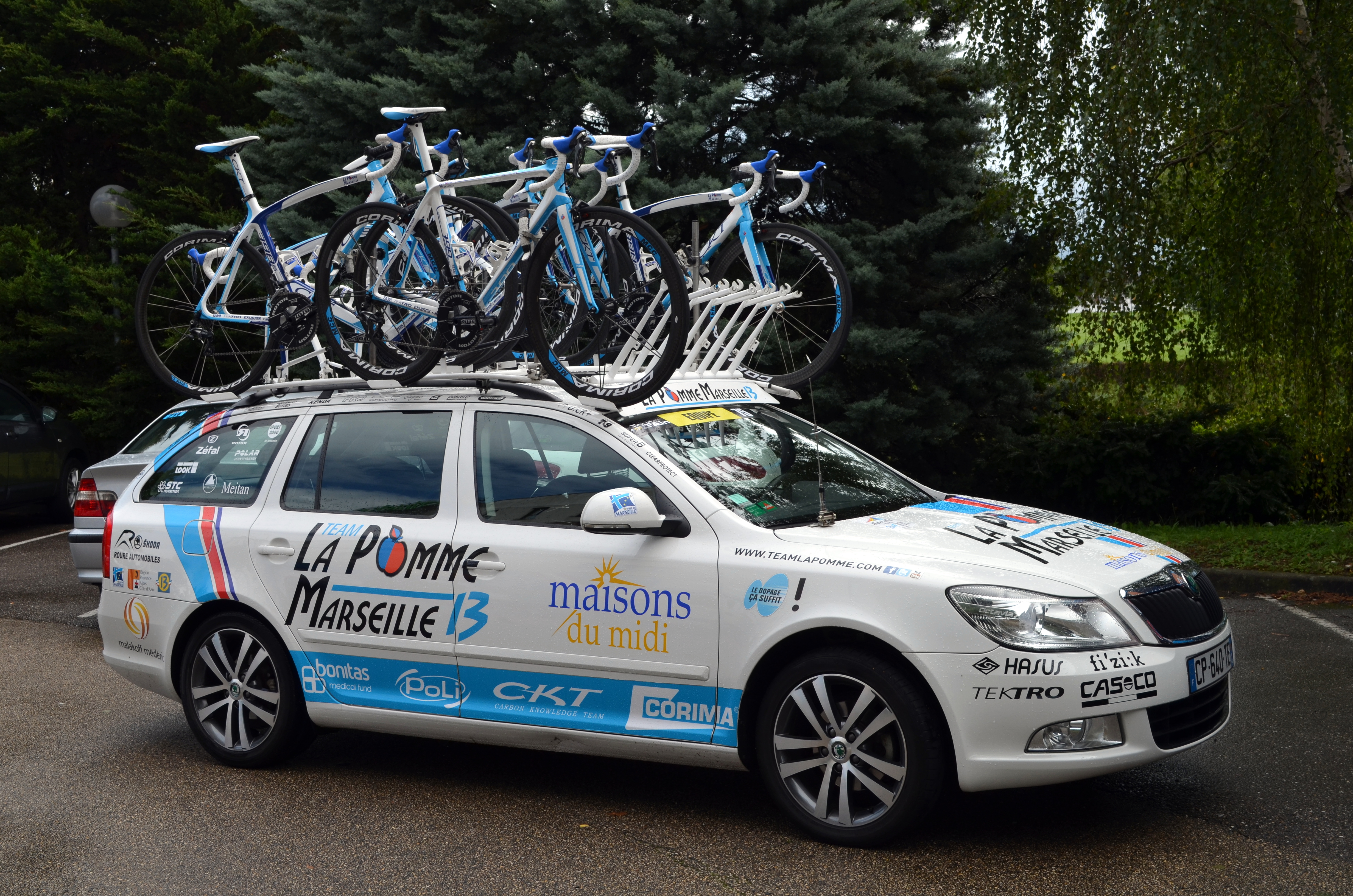 Tour de l'Ain 201 - Stage 3: hotel before beginning.